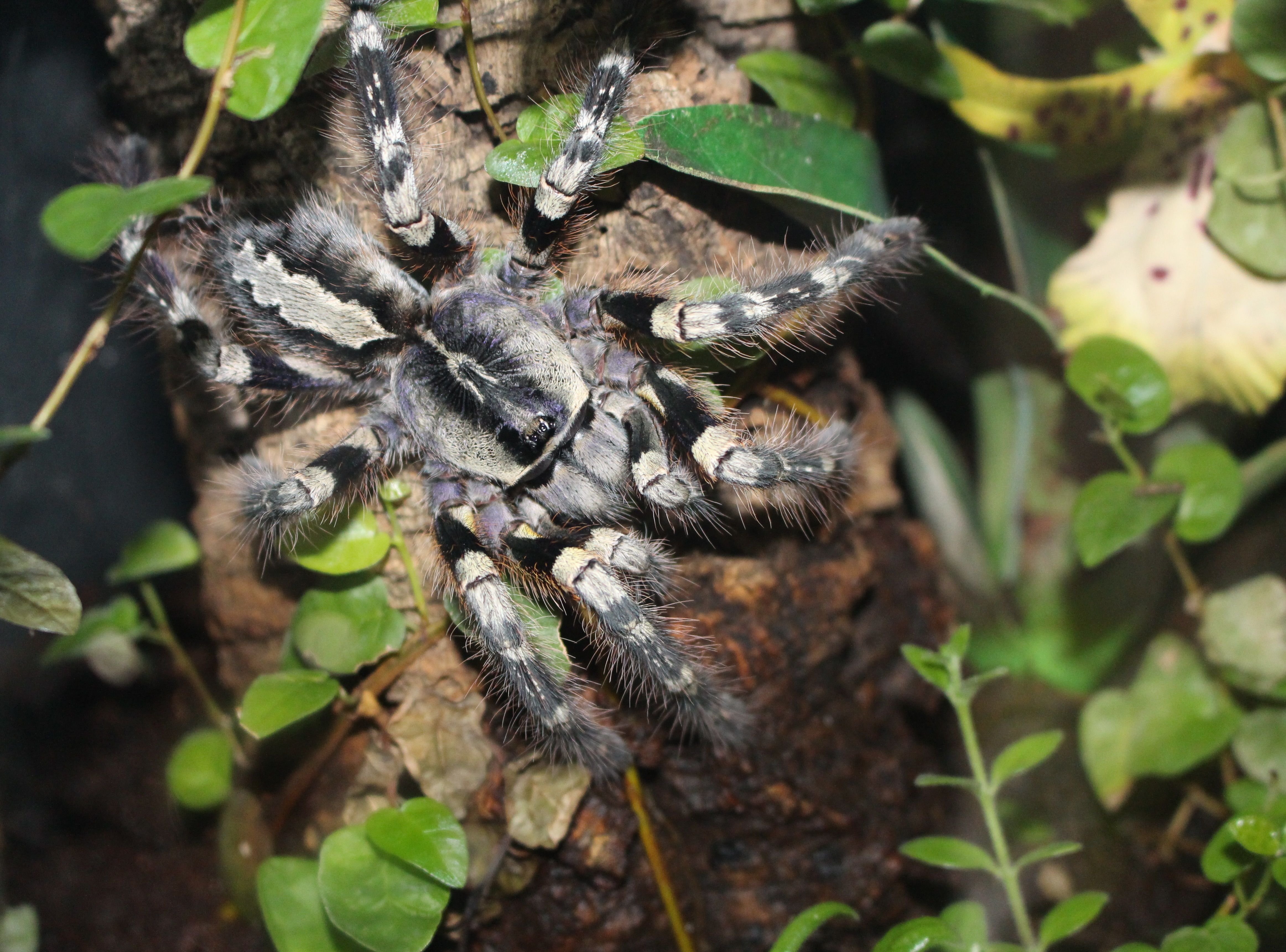 Female Poecilotheria striata right after molting.